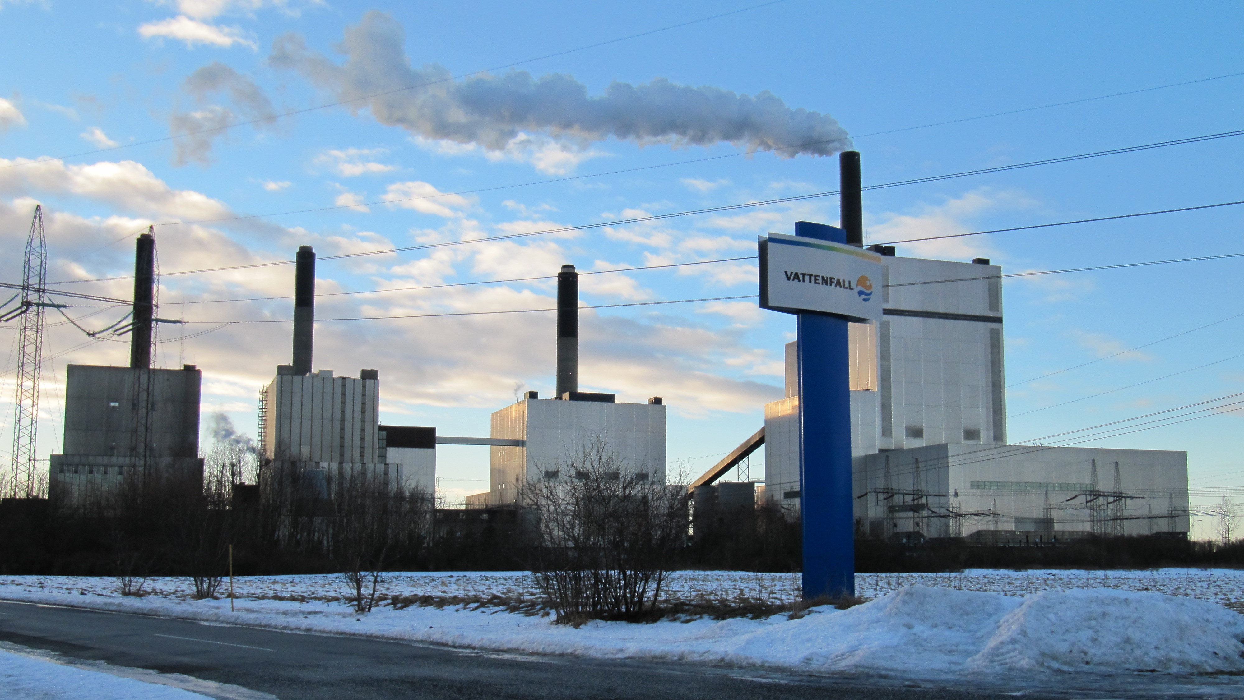 Nordjylland Power Station near Vester Hassing and Stae